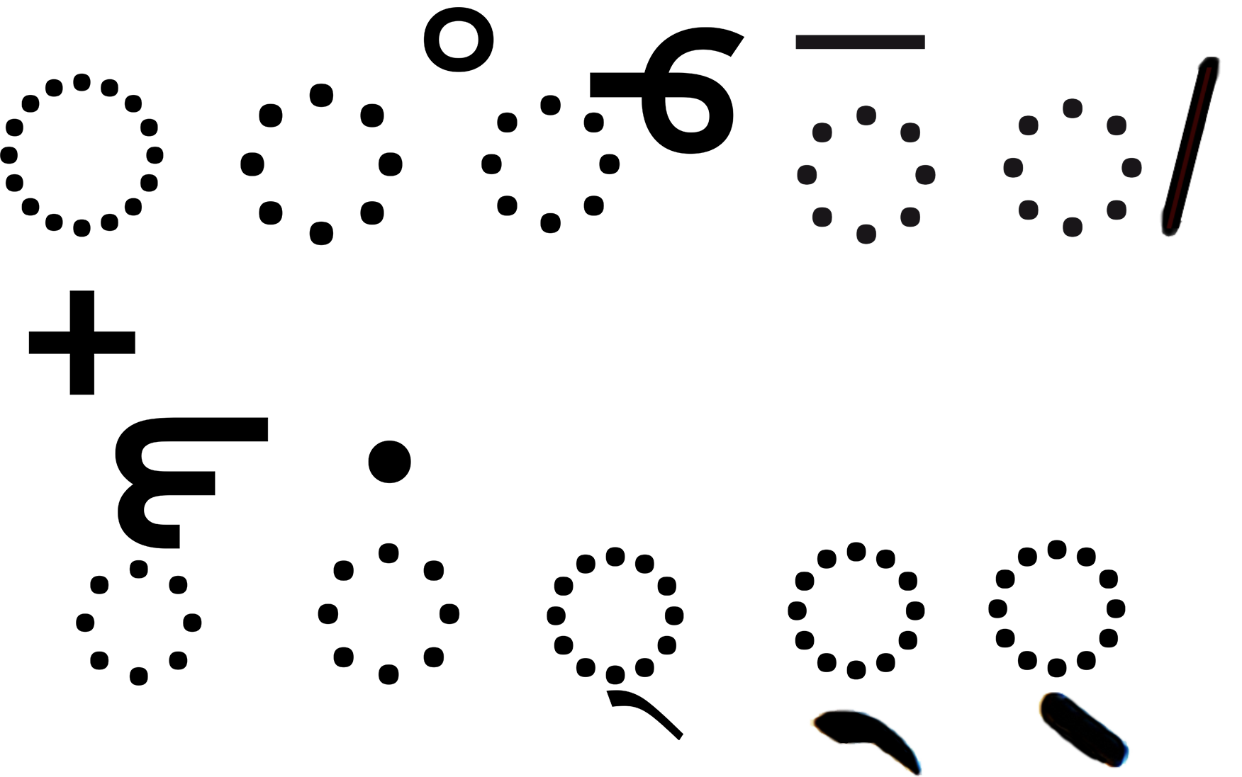 Virama in different languages. Left-to-right: Chakma and Myanmar, Rejang, Kannada, Brahmi, Khojki, Telugu, Tamil, Devanagari, Siddham, Khudabadi (Khudawadi).